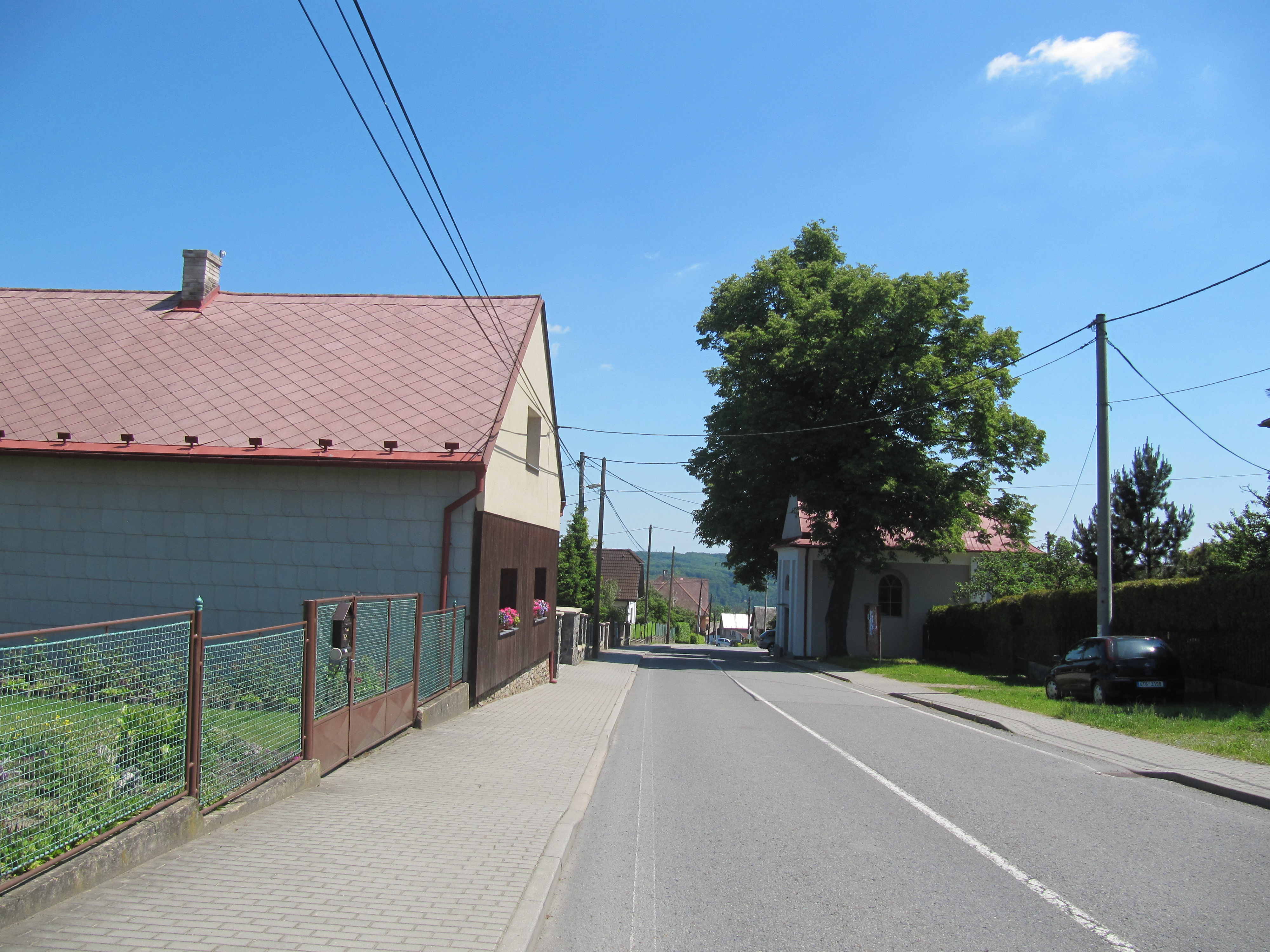 Hradec nad Moravicí, Opava District, Czech Republic, part Domoradovice.